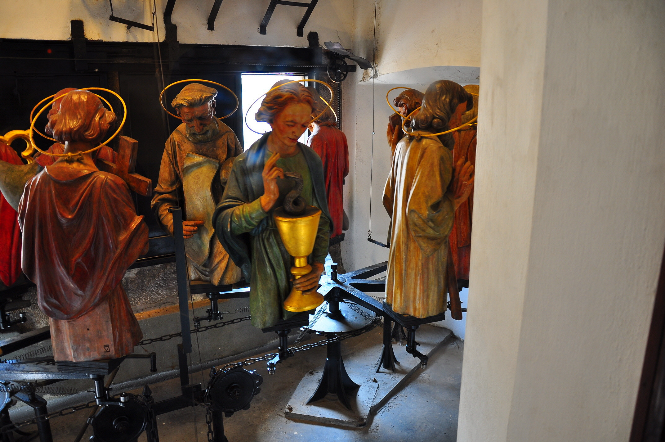 Apostles on the Prague Astronomical Clock